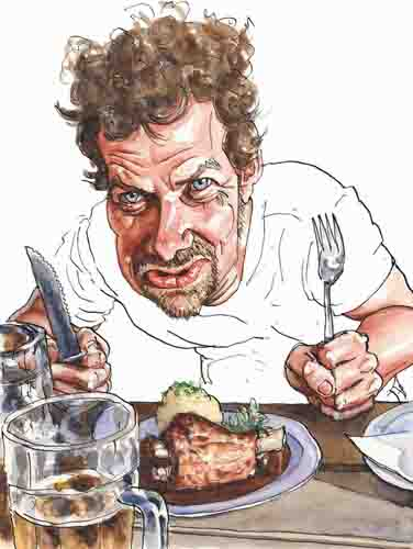 Self portrait by the Norwegian caricaturist, illustrator and comics artist Steffen Kverneland (born 1963)